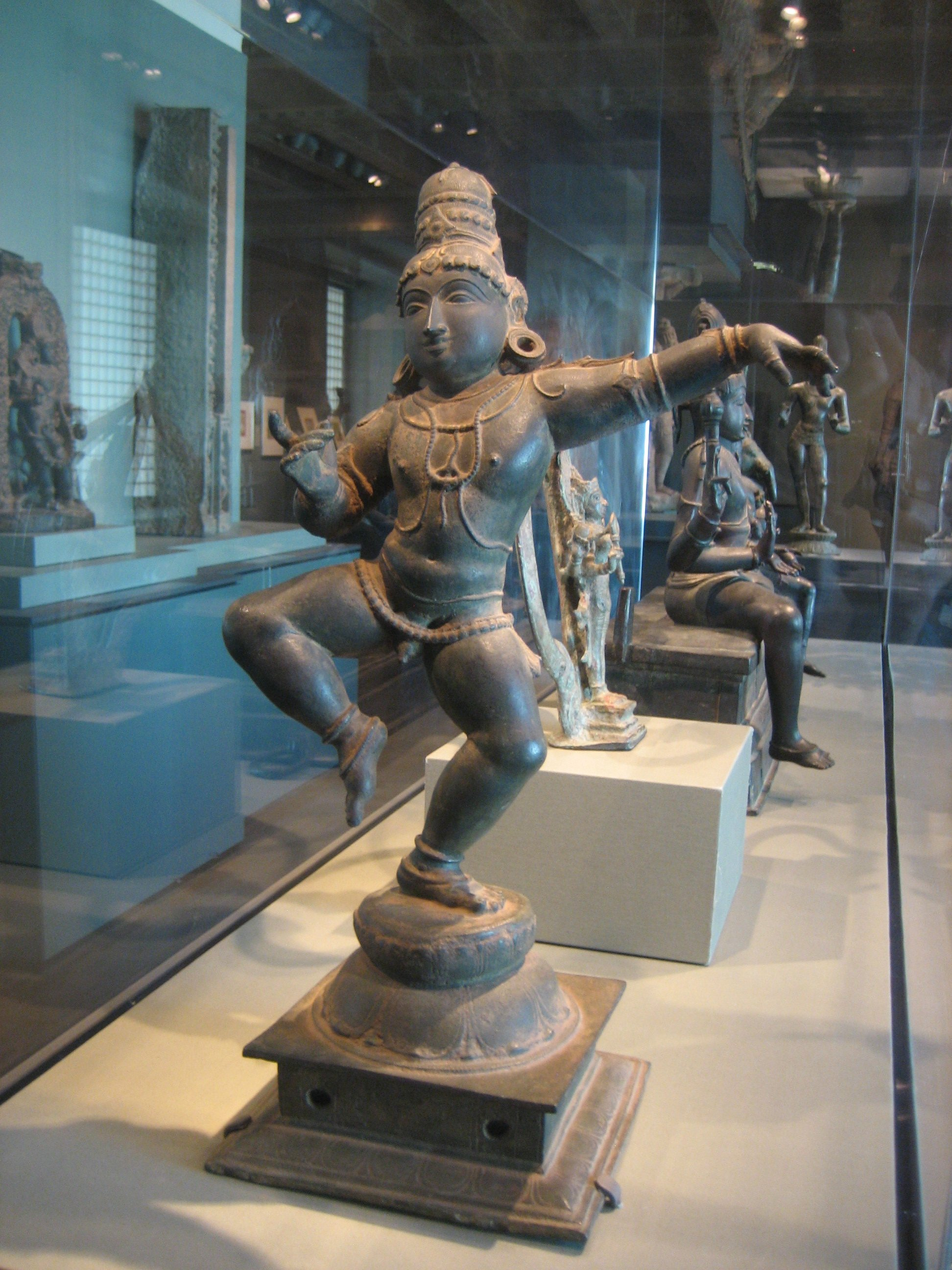 The Shivaite poet-saint Sambandar, 1200-1400, India, Tamil Nadu state, bronze, Asian Art Museum of San Francisco